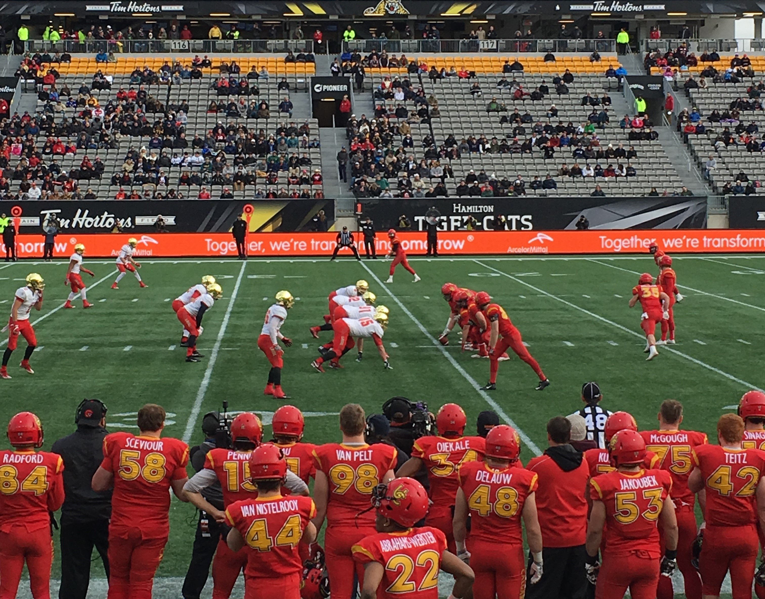 The Calgary Dinos on offense against the Laval Rouge et Or in the 52nd Vanier Cup.